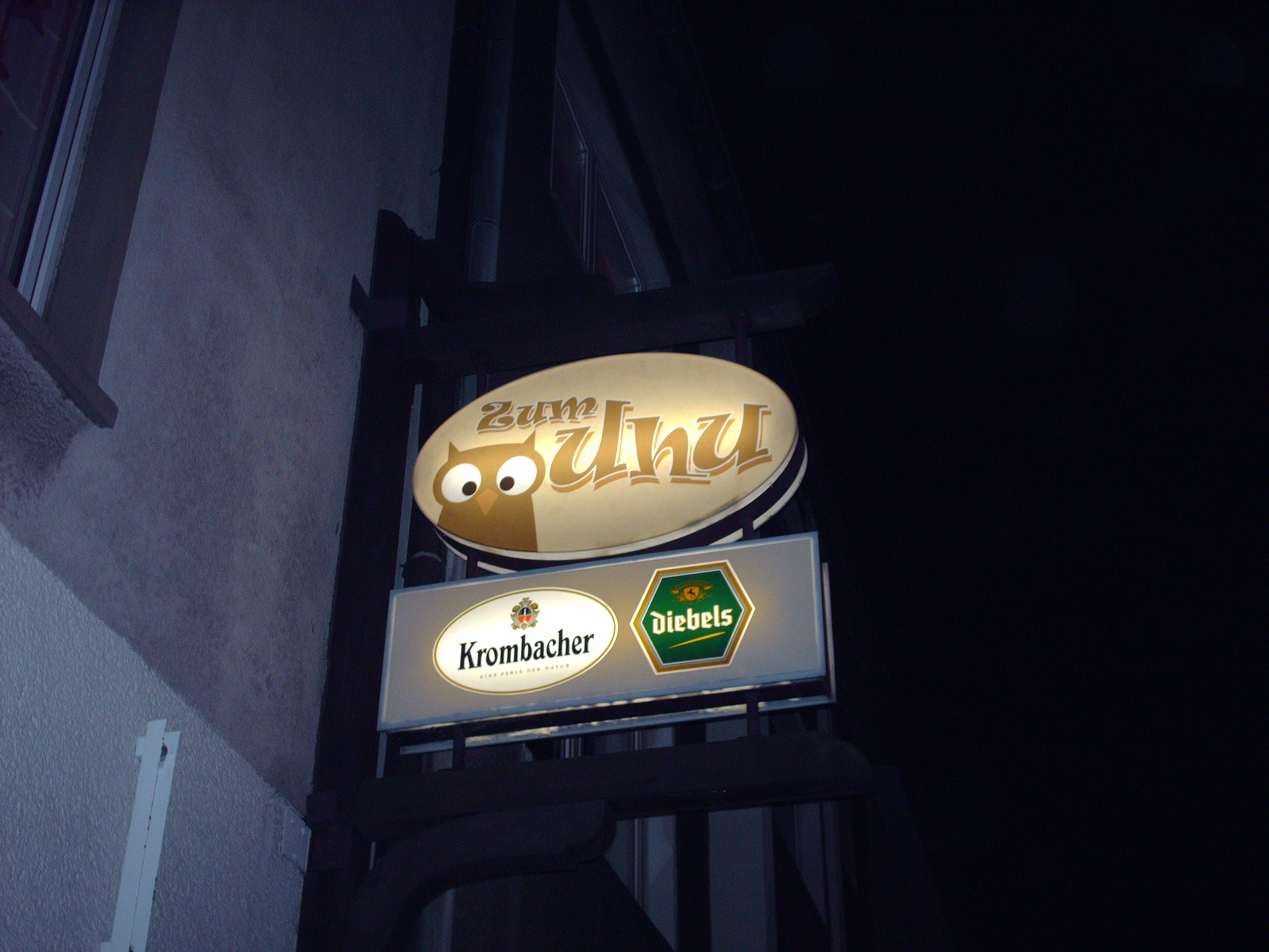 Zum Uhu, Essen, Germany check usage